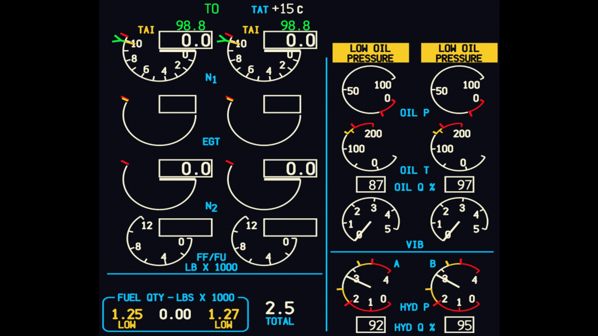 EIS Display of a Boeing 737-800 after landing and engine shutdown, accessed via external data cable linked to output parameters.